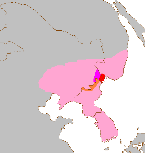 Amur Leopard distribution